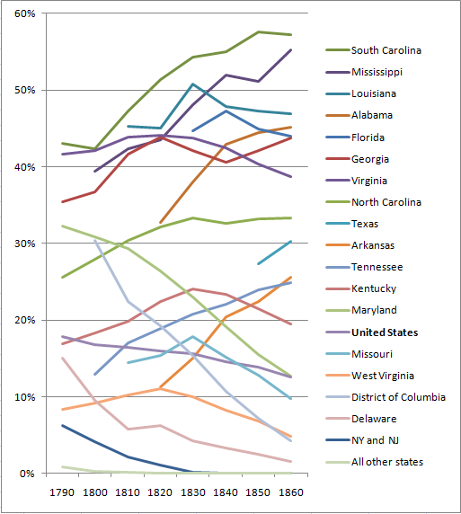 Evolution of the enslaved population of the United States as a percentage of the population of each state, based on official US Census figures. States are listed by 1860 slavery rate (in descending order). Note that data for future West Virginia counties are disaggregated from Virginia data. Data source: [1] and [2]